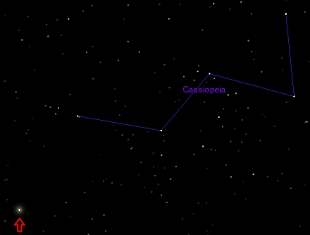 Screenshot aus Celestia